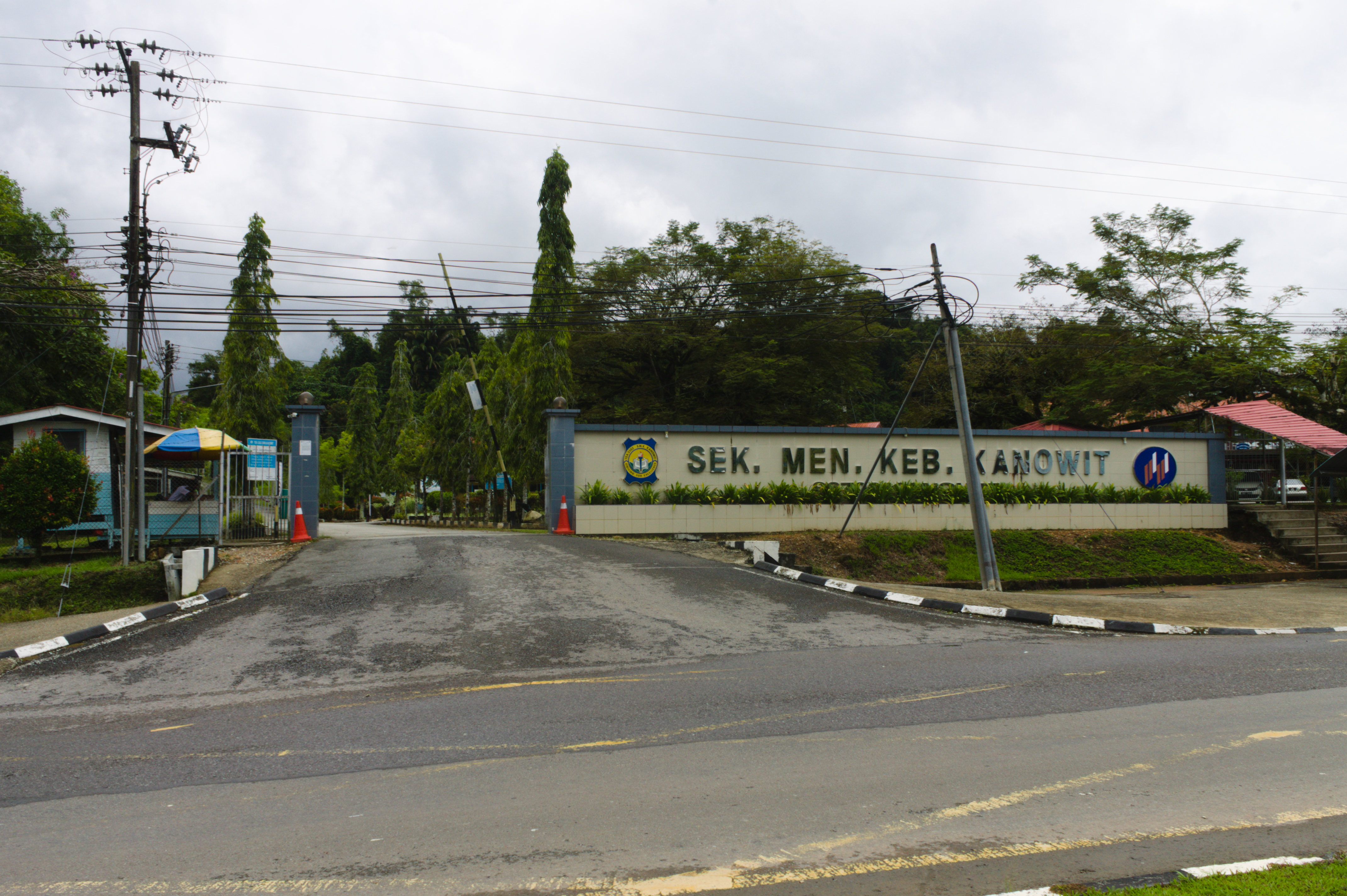 SMK Kanowit entrance